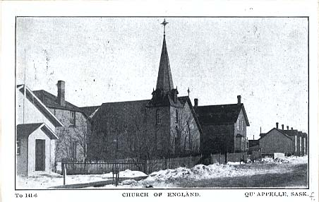 St Peter's Pro-Cathedral, Qu'Appelle, Saskatchewan with the Terrace, a row of townhouses, in the background, after 1905. All buildings to the south of the pro-cathedral and the building in the immediate foreground are gone; the deanery, immediately to the north of the pro-cathedral, is in private hands.